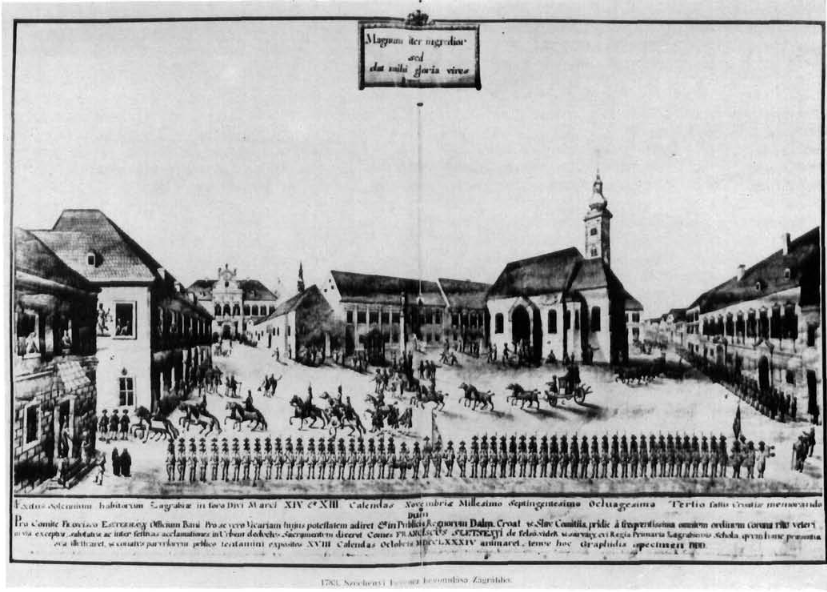 Inauguration of Ban of Croatia, Franjo Esterhazy, on October 20th, 1783, St. Mark's Square, Zagreb, Croatia